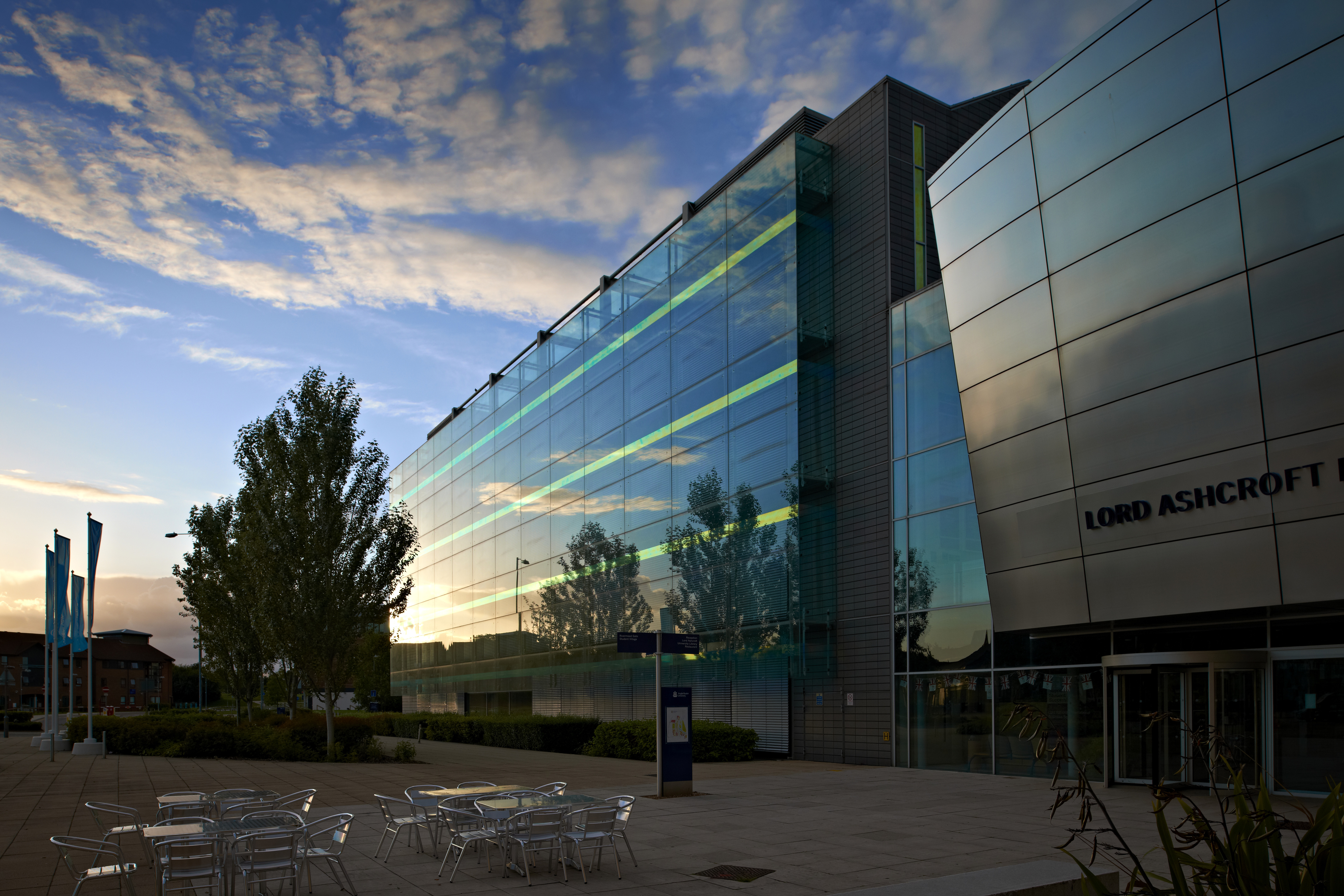 Lord Ashcroft building at Anglia Ruskin University, Chelmsford campus